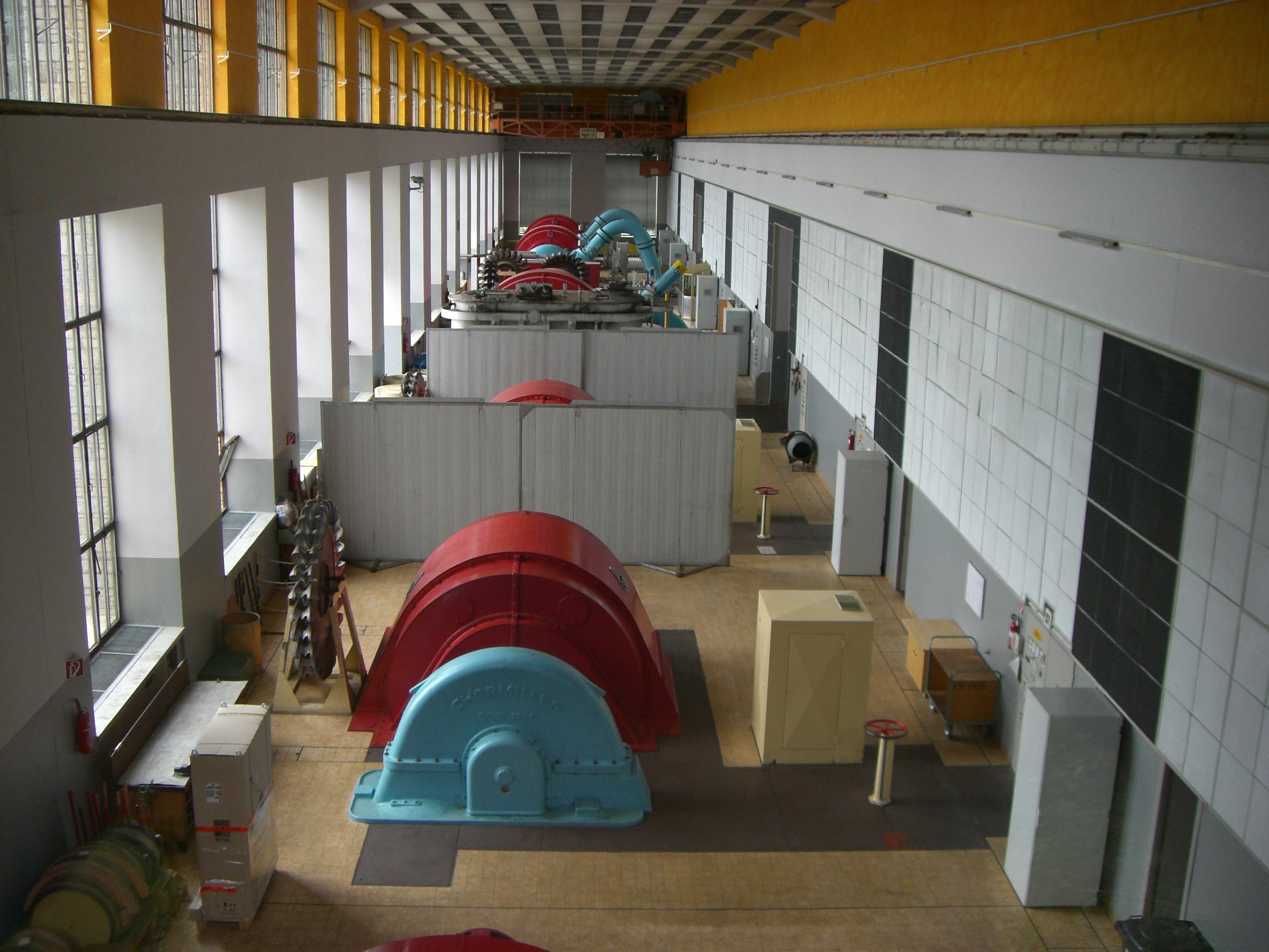 Reißeck-Kreuzeck power plant in Kolbnitz, Carinthia, Austria